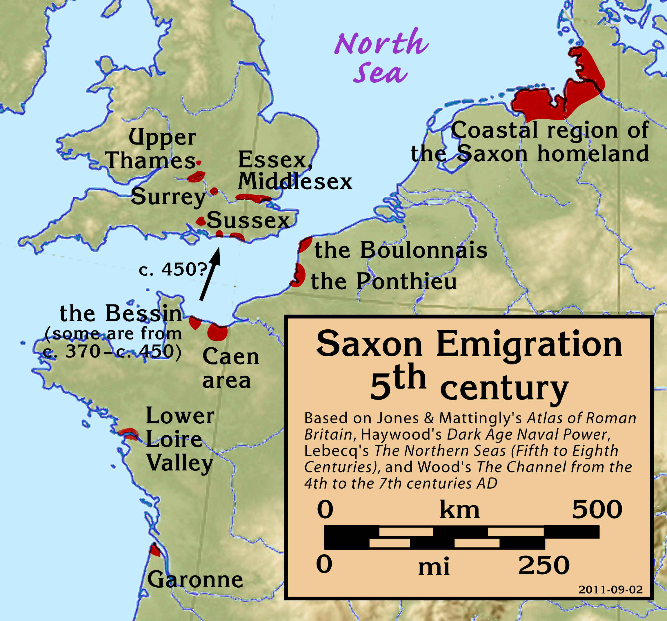 Saxon Emigration in the 5th century